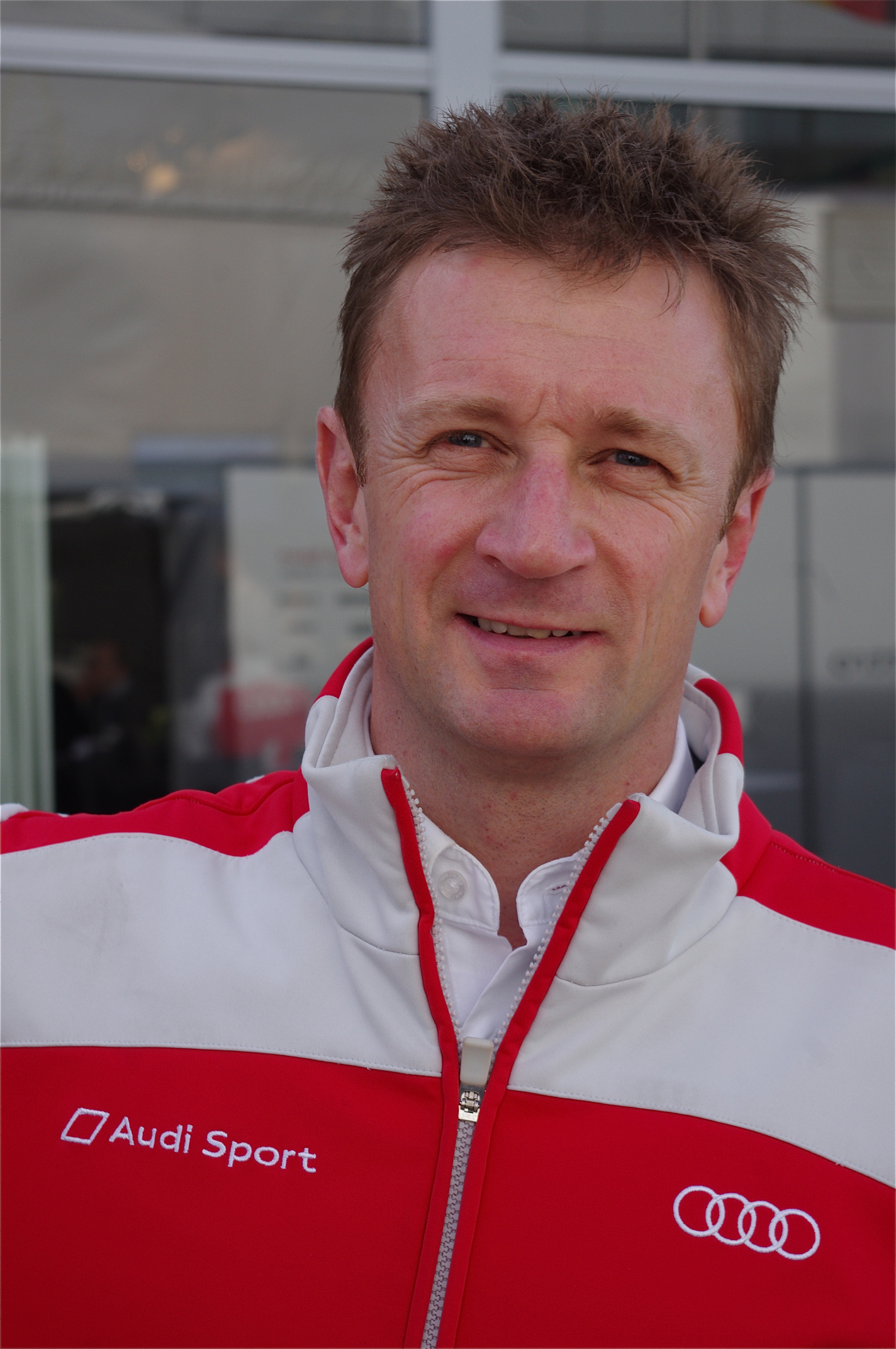 Allan McNish Driver of Audi Sport Team Joest's Audi R18 e-tron quattro Hybrid, at Silverstone, April 13 2013